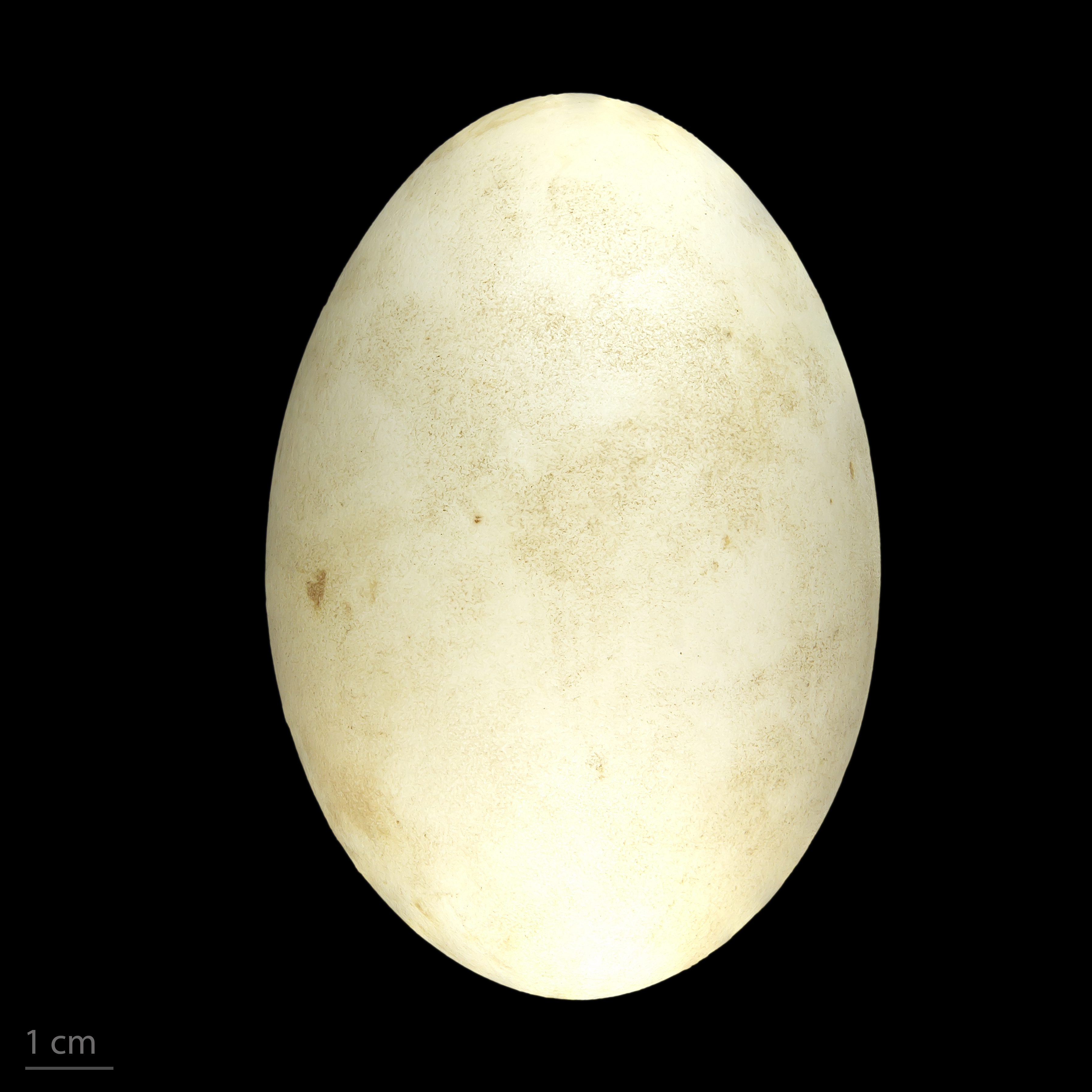 Egg of Canada goose Collection of Jacques Perrin de Brichambaut.